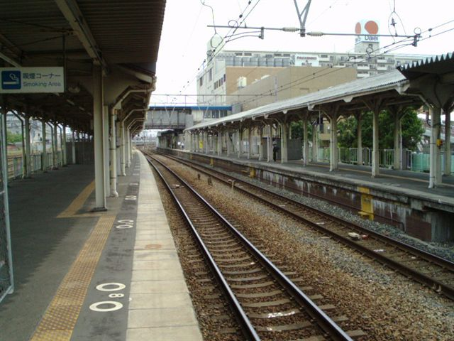 Home of Suita Station(Photograpy:Nozomikobe/4 Jun,2006)